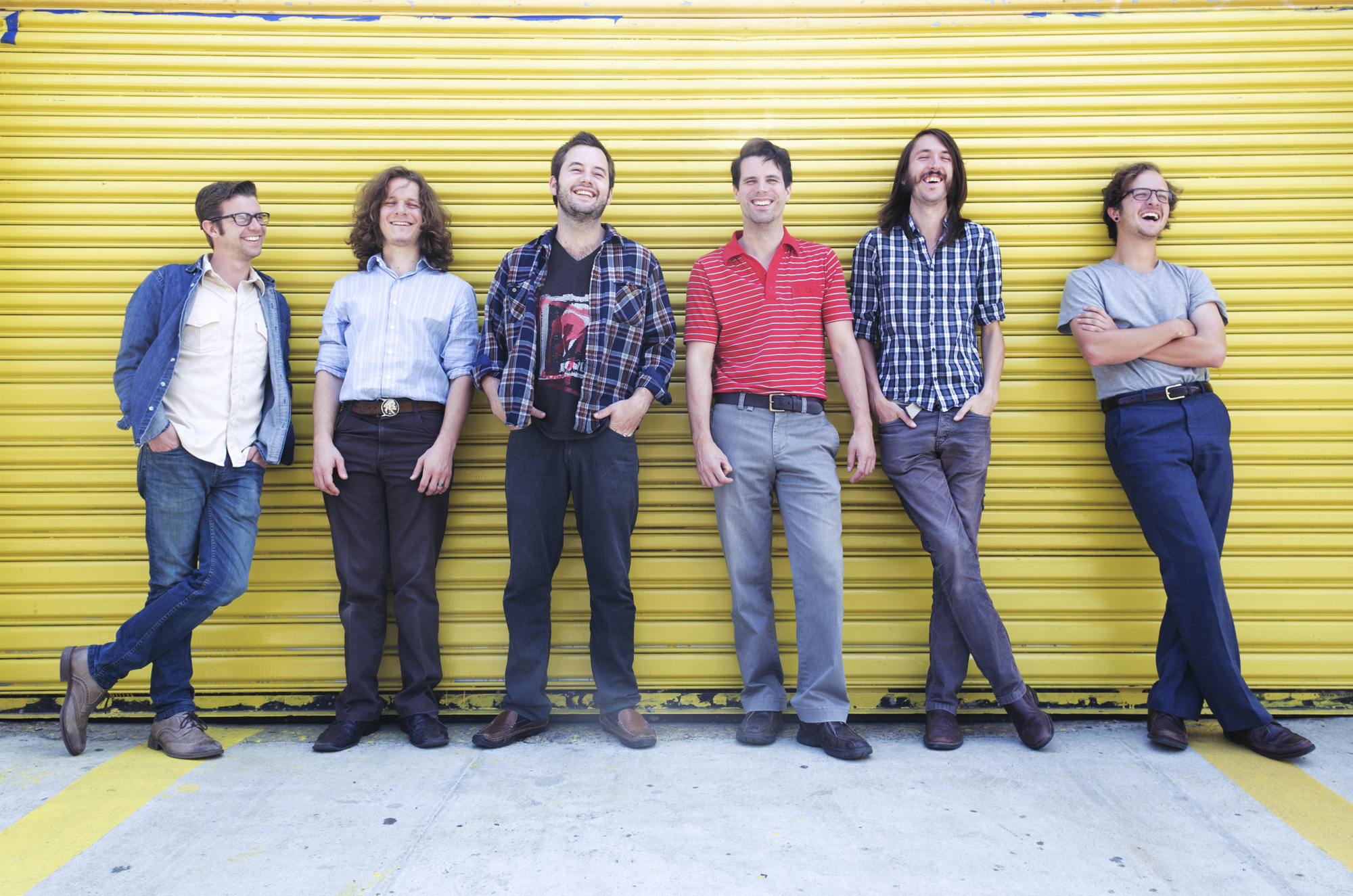 Holy Ghost Tent Revival photo by Caitlin McCann